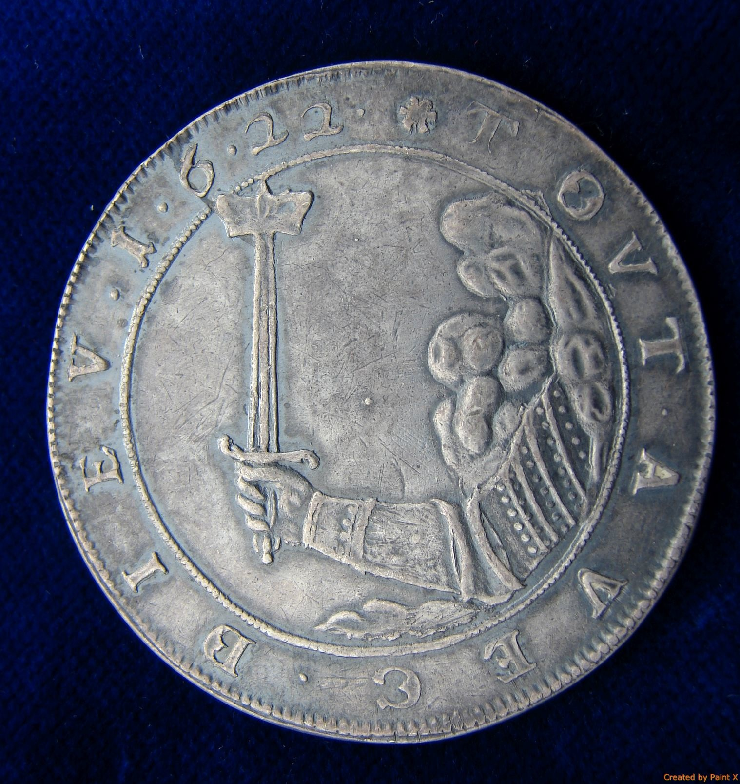 D.= 43 mm. 27.41 g. Christian the Younger, Duke of Brunswick-Lüneburg and Bishop of Halberstadt, 1616 - 1626. He was a German Protestant military leader during the Thirty Years' War. During the war, he earned a reputation as a dangerous fanatic. He picked up a holy treasure from the dioceses of Münster and Paderborn, and minted this "Pfaffenfeindthaler" in 1622 to pay his troops. This Thaler is a typical war coin, like the siege coins. 4 lines: "GOTTES FREVNDT DER PFAFFEN FEINDT", around: "* CHRISTIAN· HERTZ: ZV· BRAVNSCHW: V: LVNEB: *". Pnnched: "NP 25"/ Arm out of clowds, holding sword upright, on top a Jesuit's hat. Around: "* TOVT · AVEC · DIEV · 1·6·22· *". Welter 1383. Condition: EXTREMELY FINE.